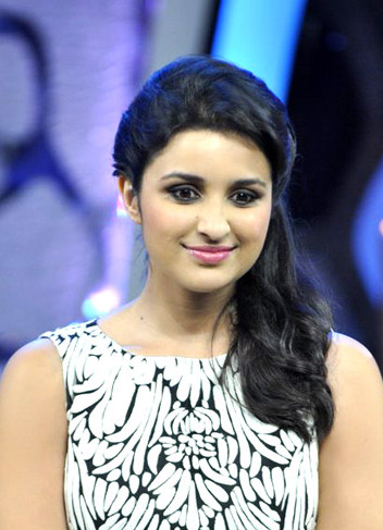 Parineeti Chopra promoting 'Shuddh Desi Romance' on DID Super Moms.jpg